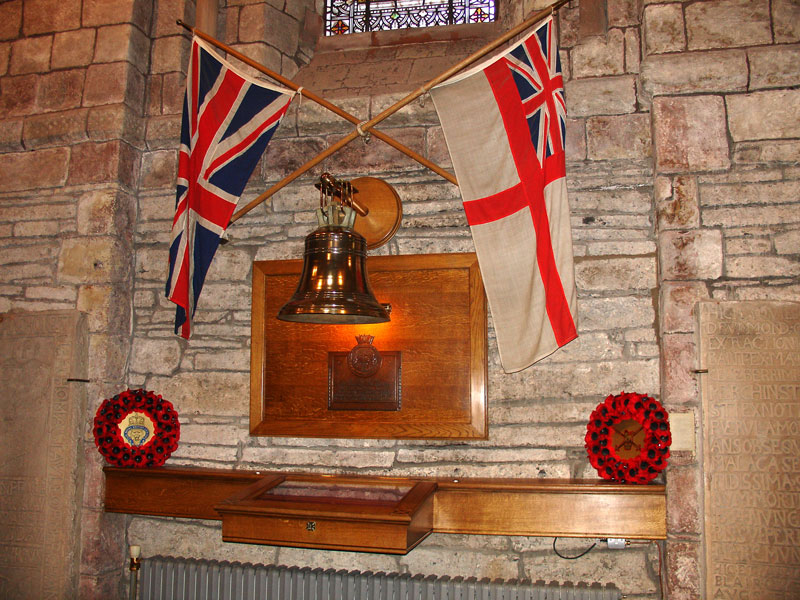 Memorial to HMS Royal Oak (sunk 14 October 1939) in St Magnus' Cathedral, Kirkwall.